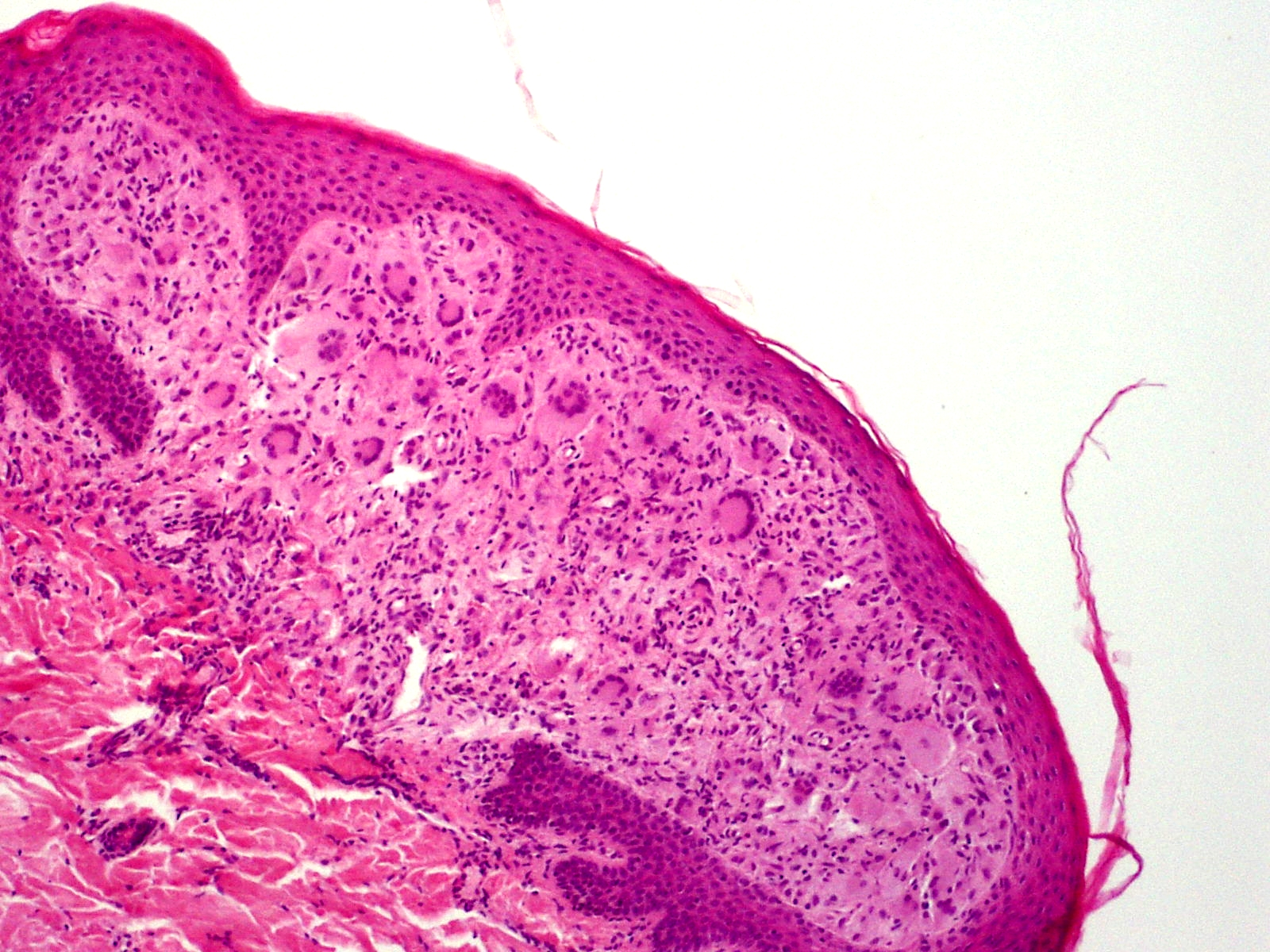 Juvenile xanthogranuloma